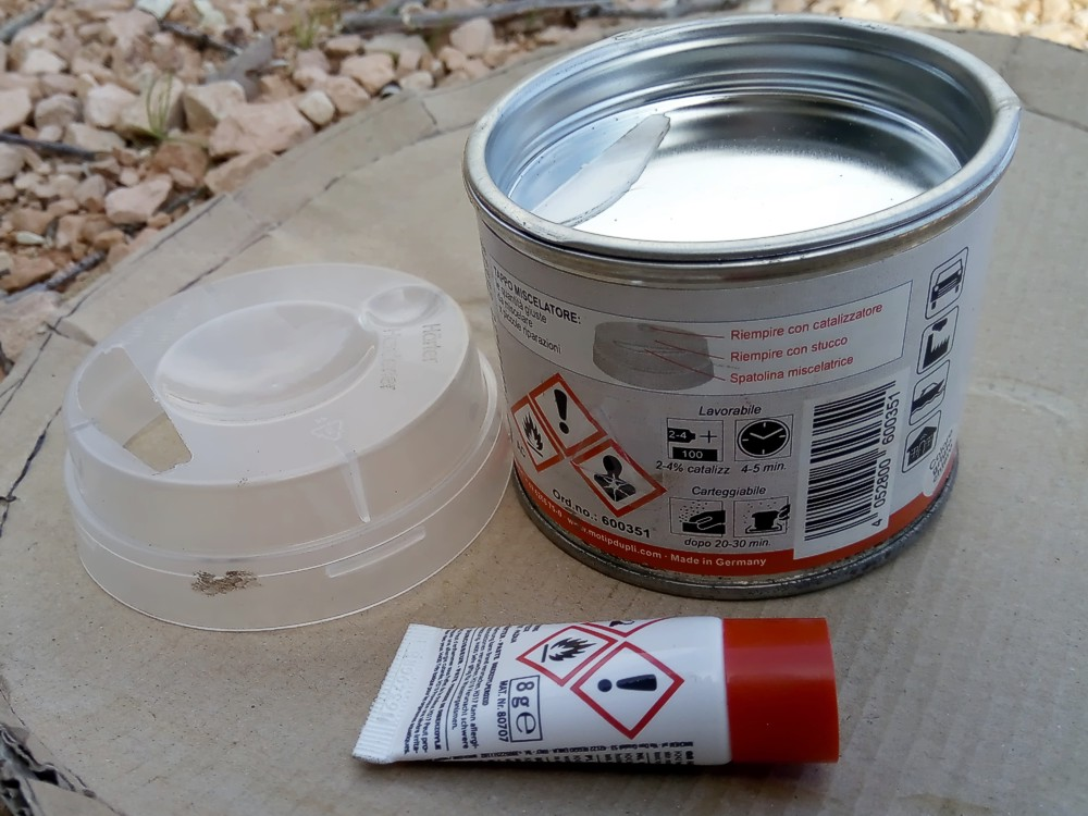 Metallic two-component aluminum filler